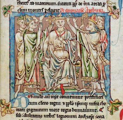 King Arthur, in minature from the Flores Historiarum